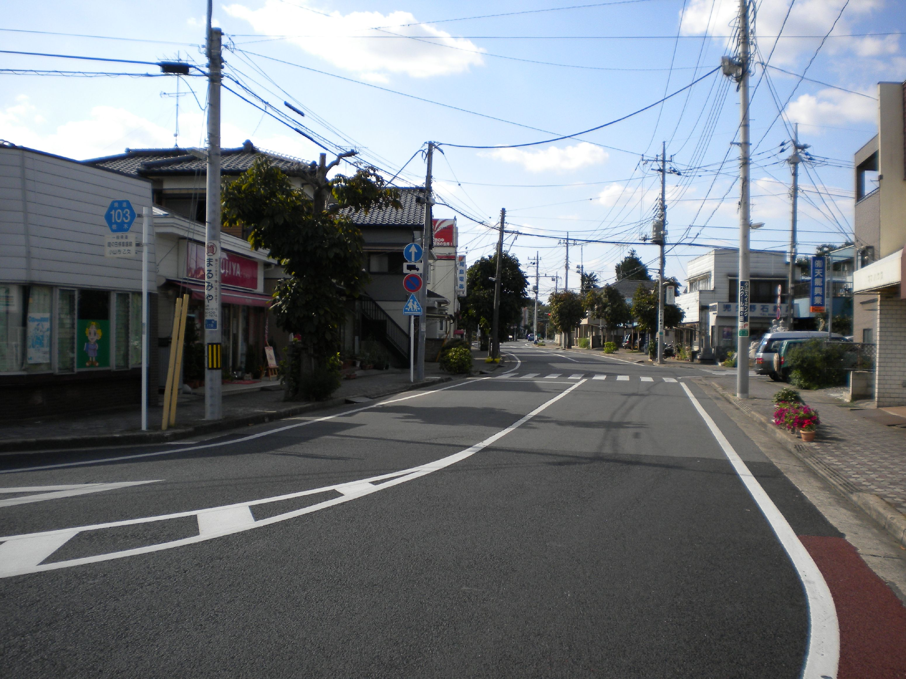 Tochigi prefectural road No.103 on Oyama city